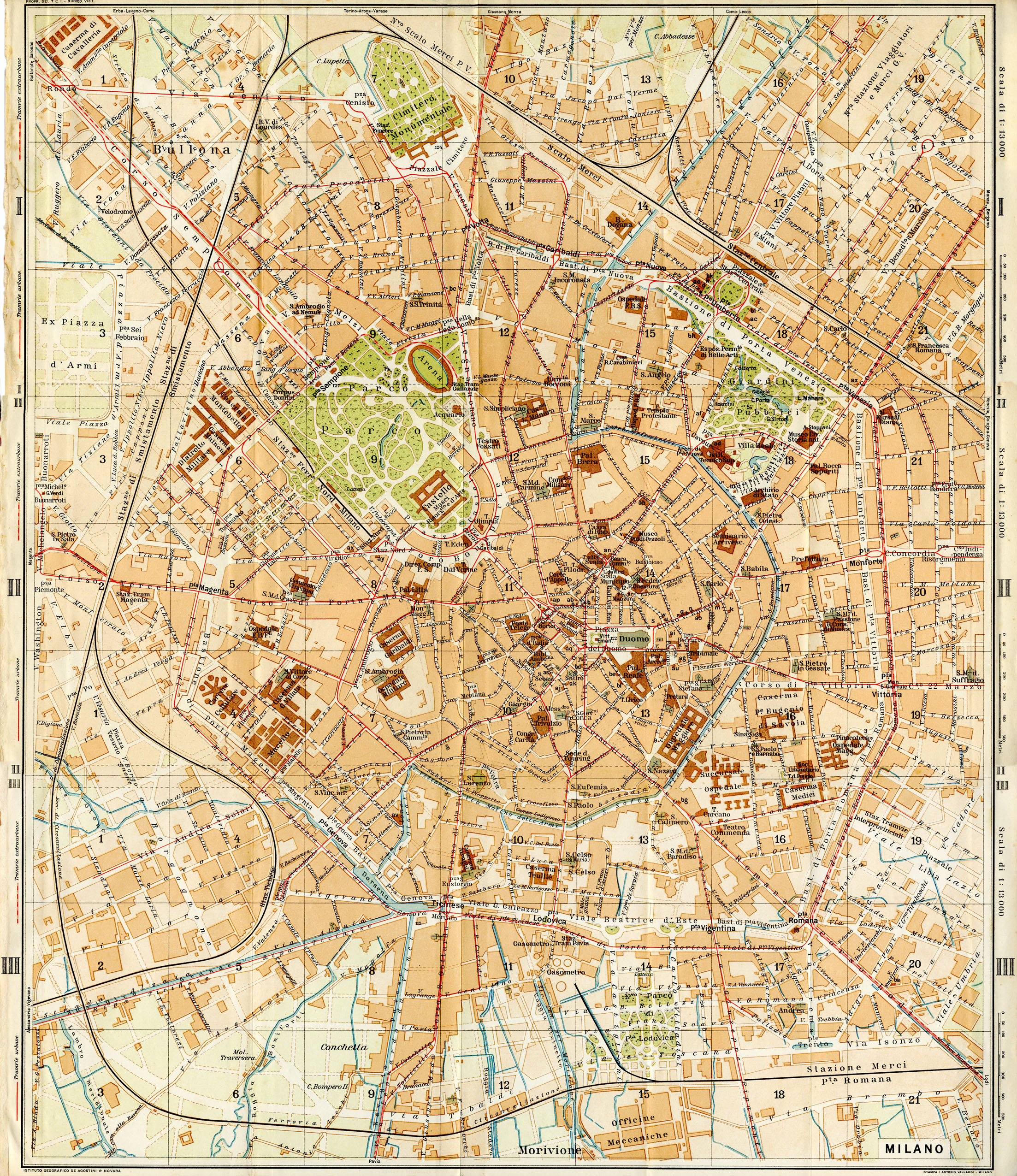 1914 Milan city map by Touring Club Italiano